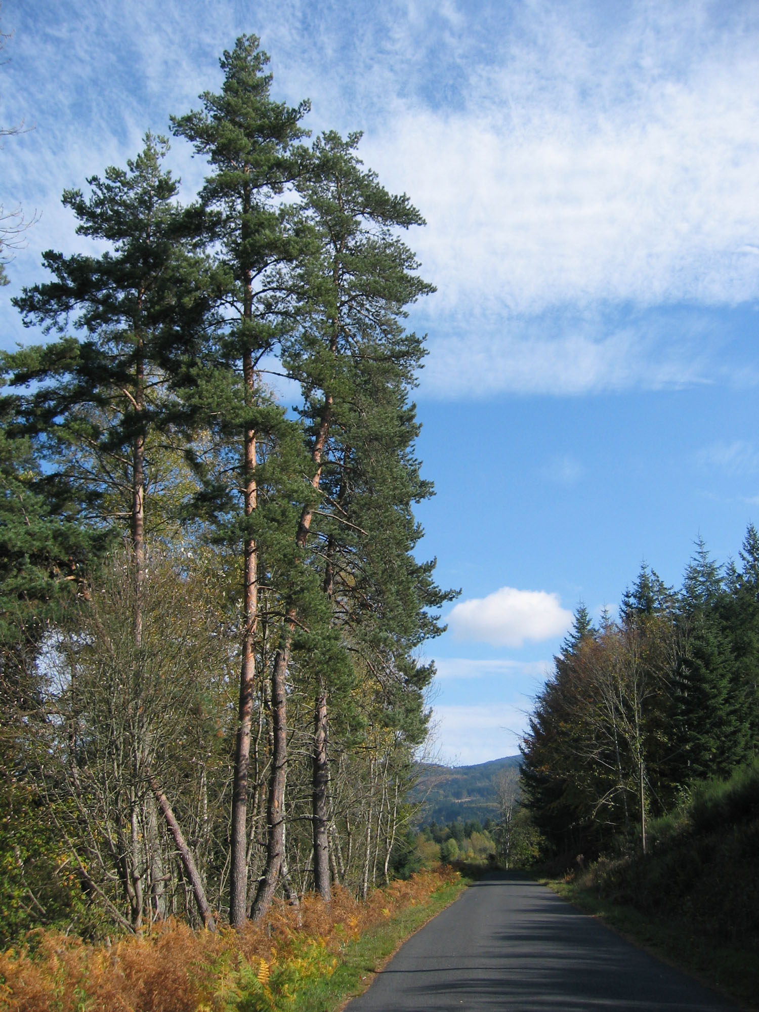 Route de Baraduc vers La Gerles à Marat 63480